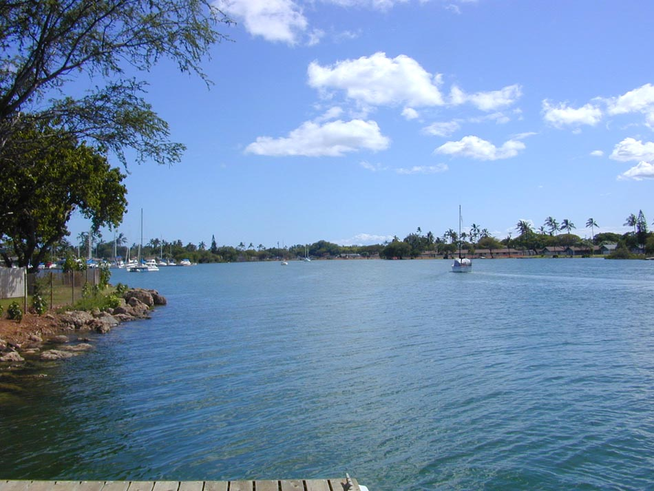 Photograph of Pu‘uloa Lagoon near Pearl Harbor, Hawai‘i.